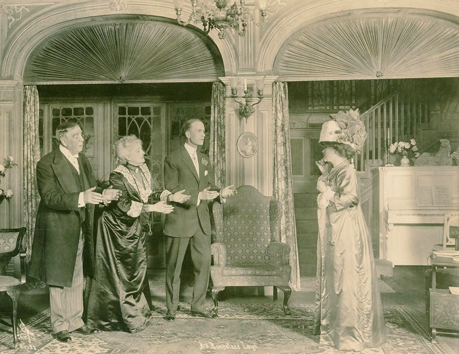 L. to R. : Charles Harbury, Kate Lester, Douglas Wood & Mrs. Fiske in the play Mrs. Bumpstead-Leigh - publicity still (cropped)